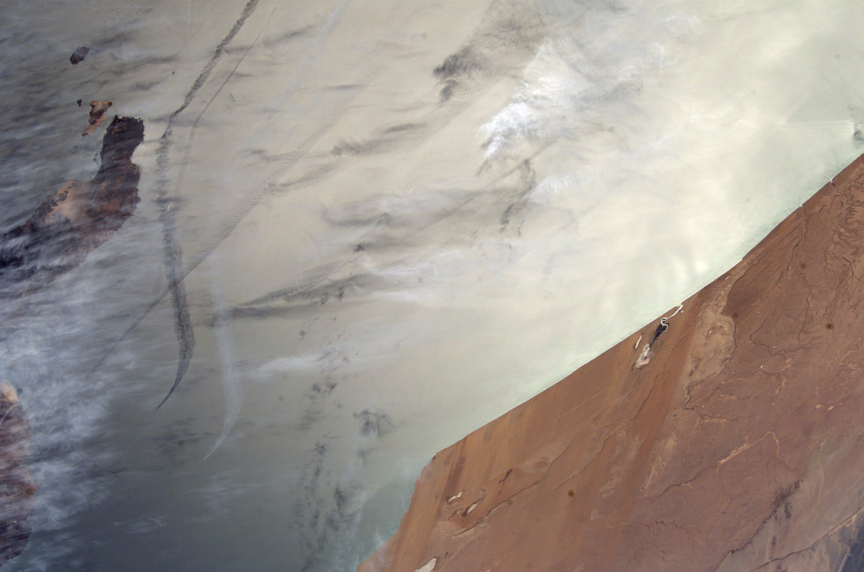 Satelite view of Lanzarote (Canary Islands) and Cape Juby